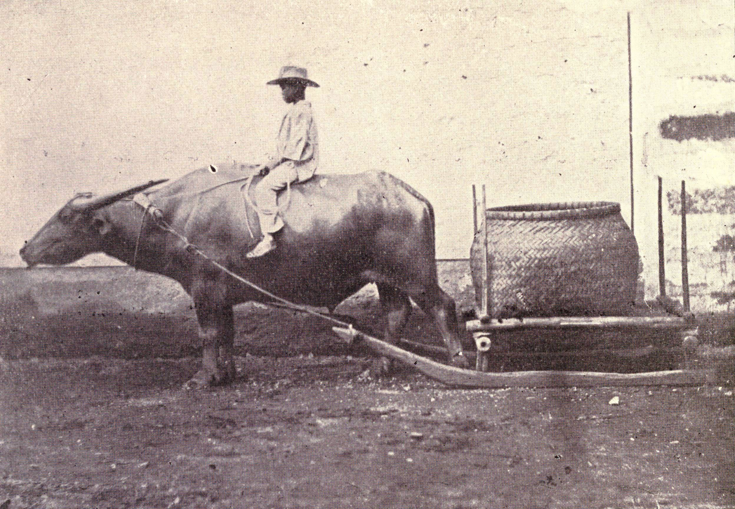 Original caption (cropped out): Fast Freight Line of the Philippines Description (cropped out): This is the crait in which the country farmer conveys his product to market. The enormous size of the faithful water Buffalo may be judged by comparing it with the master who sits upon his back.